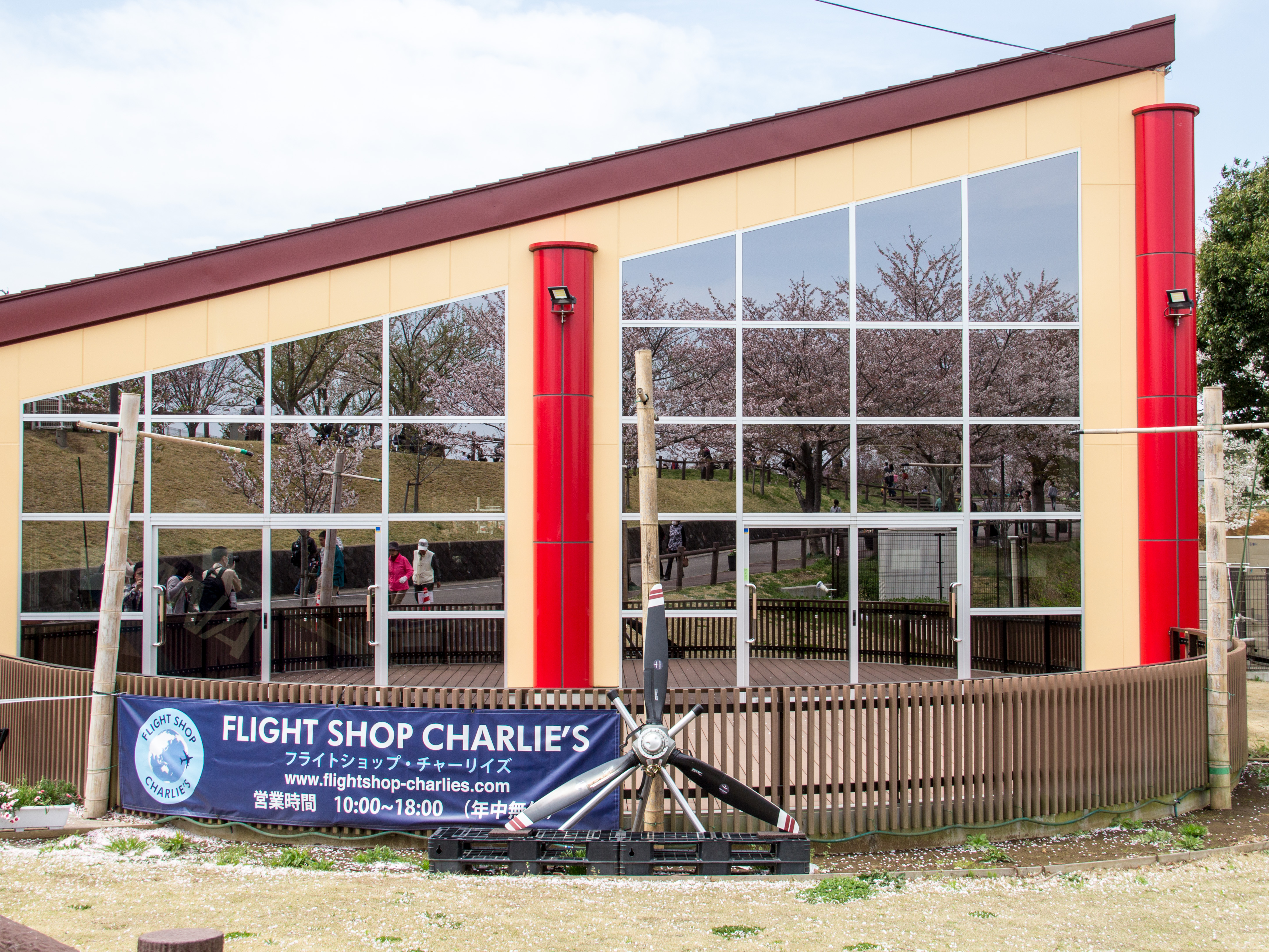 Flight shop Charlie's in Narita Sakura-no-yama park